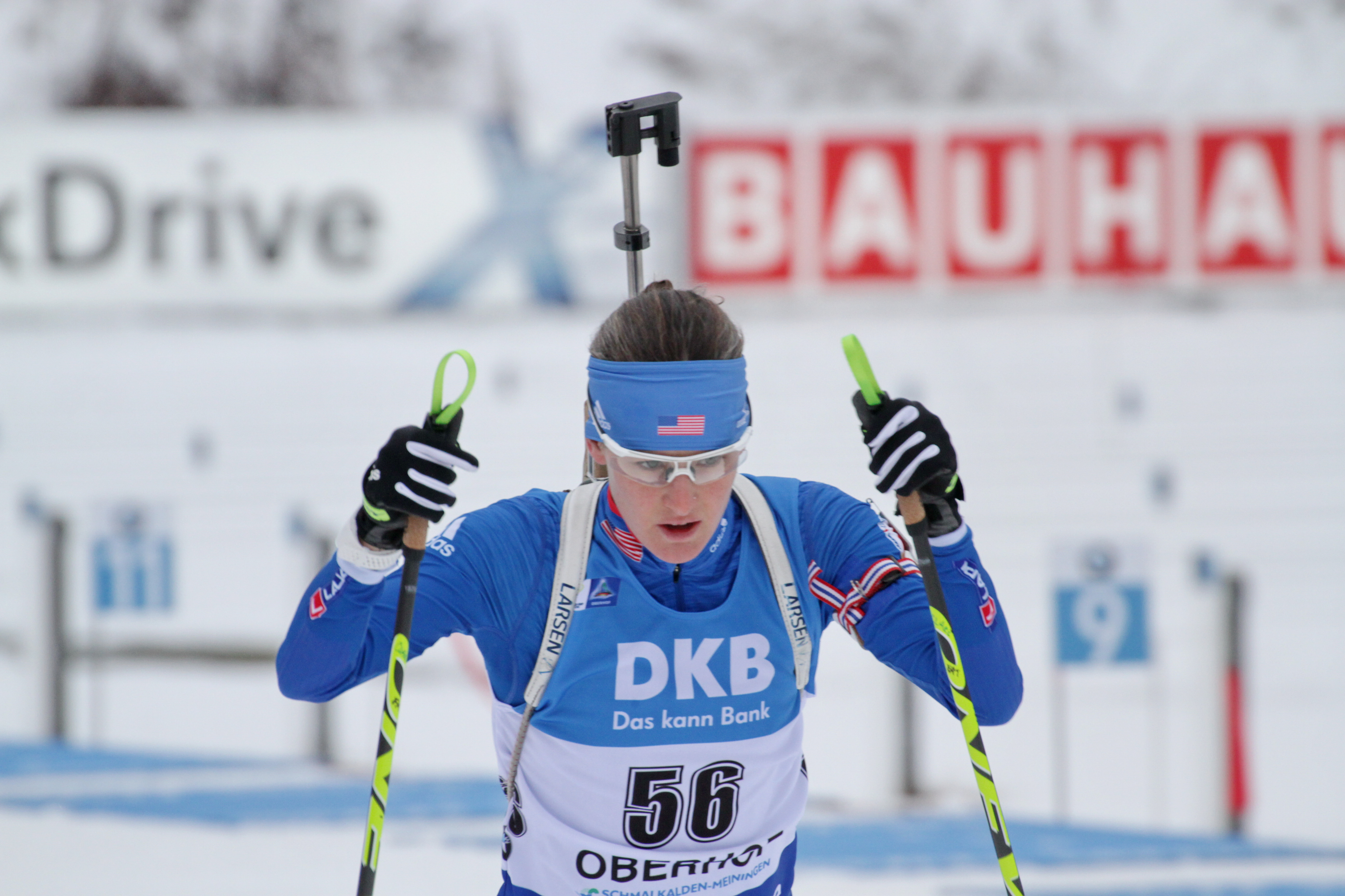 2018 Oberhof Biathlon World Cup - Sprint Women